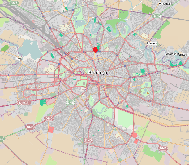 Description